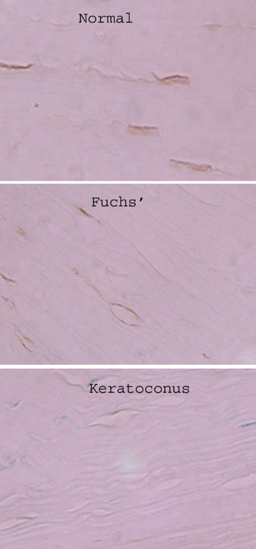 Figure 3 Alcohol dehydrogenase immunoreactivity in a normal cornea, Fuchs’ dystrophy cornea, and keratoconus cornea. Diaminobenzidine (DAB) brown staining of the keratocytes of normal corneas and Fuchs’ dystrophy corneas indicates presence of alcohol dehydrogenase in contrast to keratoconus keratocytes. Mol Vis. 2009; 15: 706–712. Published online 2009 April 10.